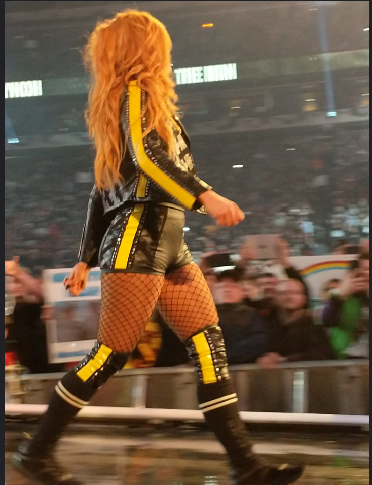 Becky Lynch at Wrestlemania 2019 on April 7, 2019